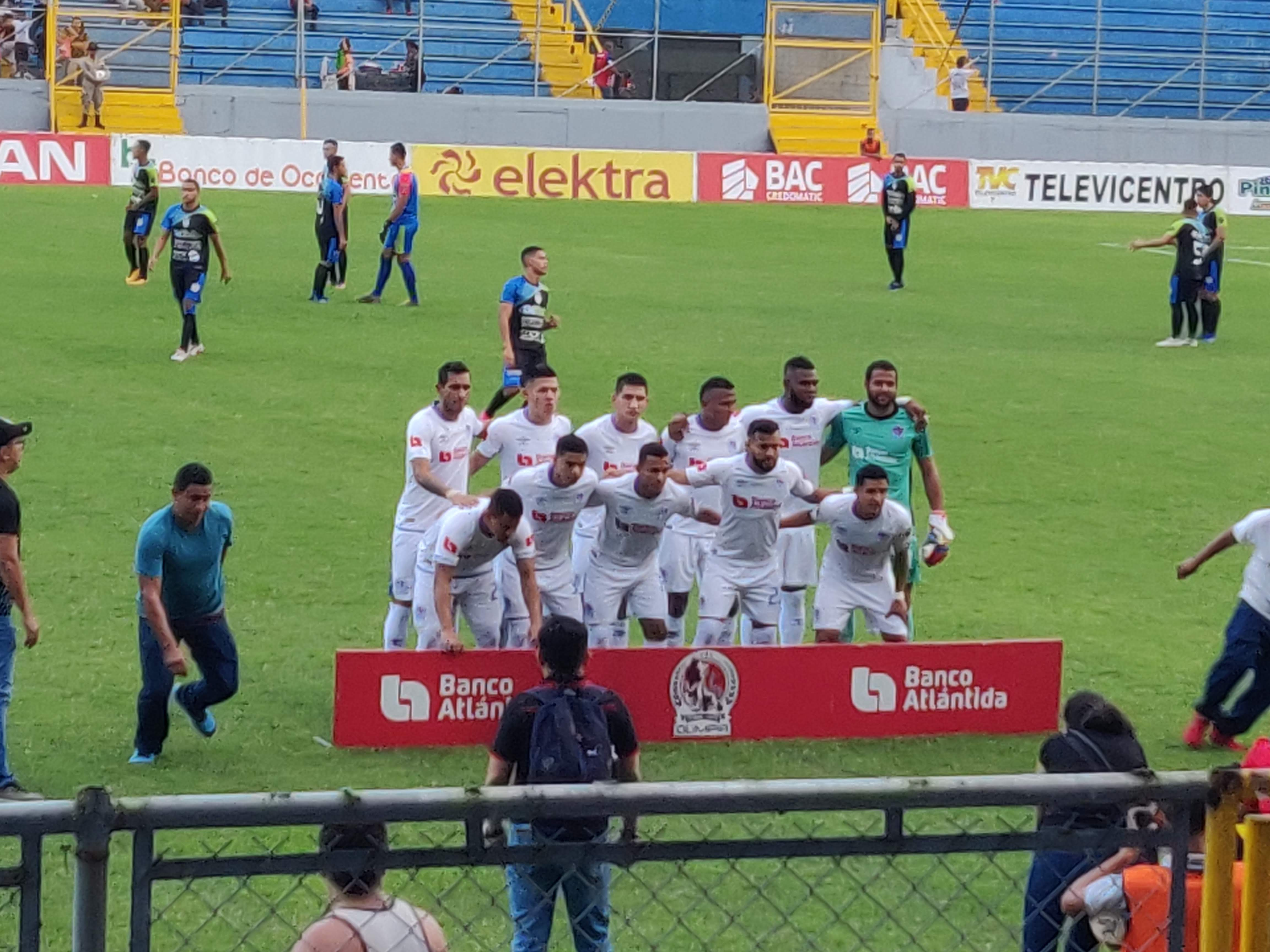 This picture belongs to the Olimpia Soccer Club in Honduras